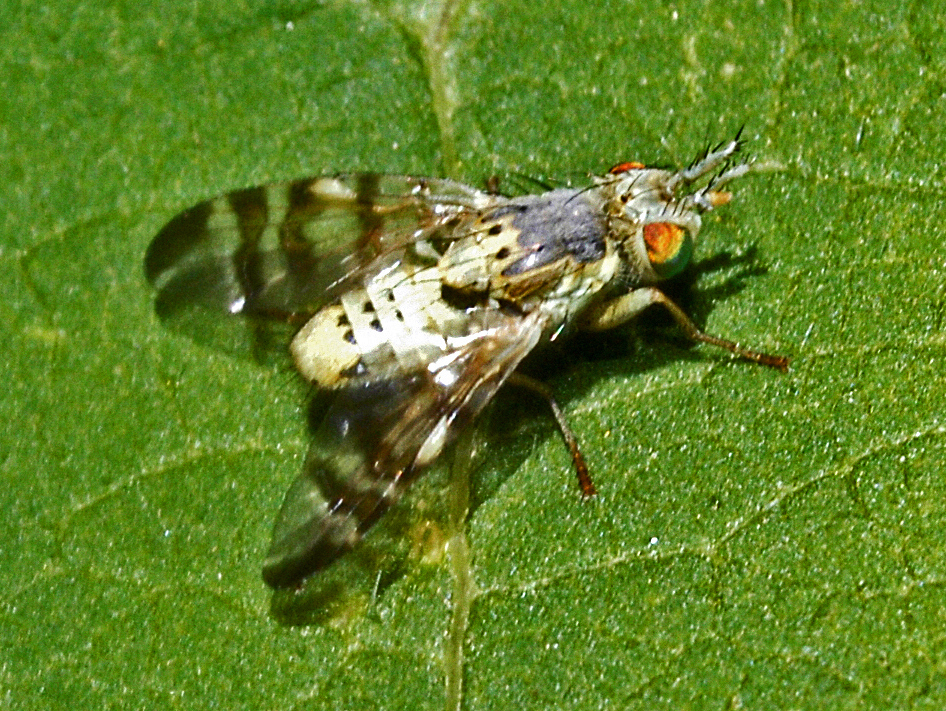 Terellia ceratocera. Pragelato, Turin. Italy